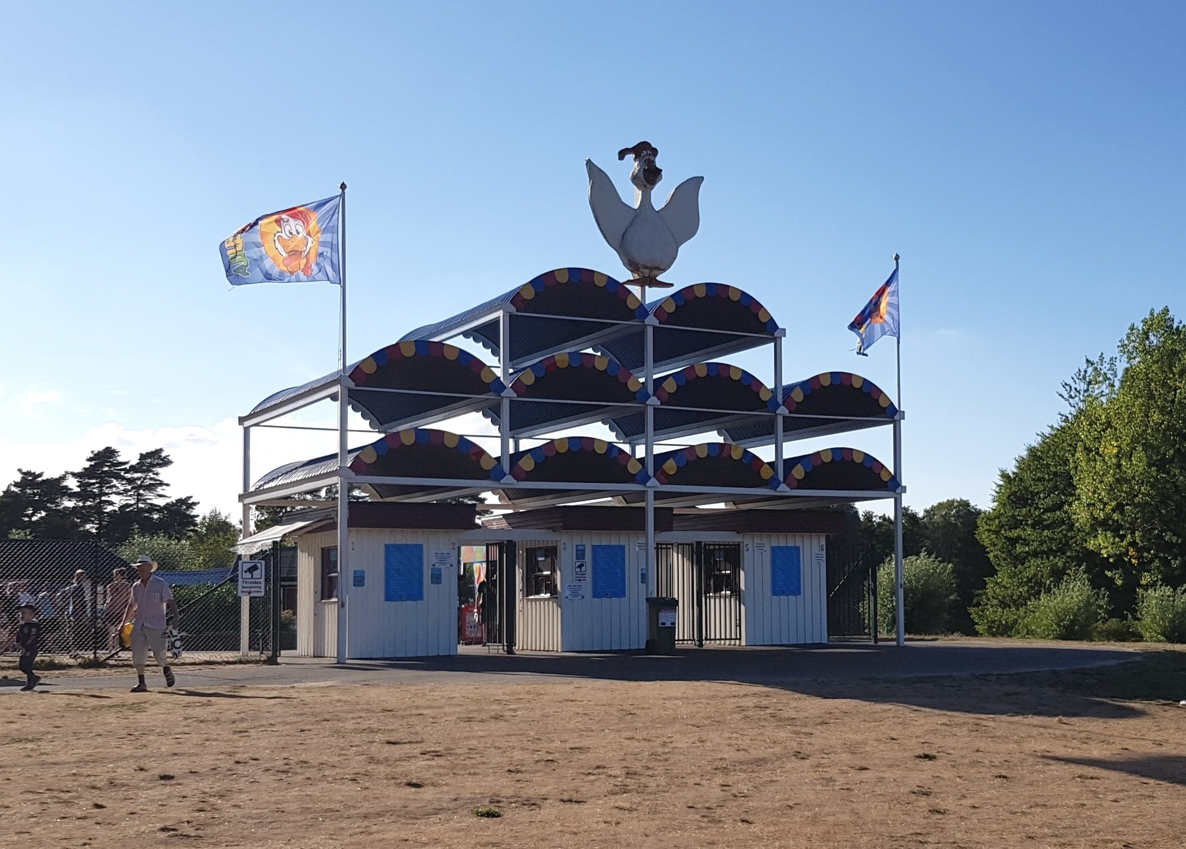 Entrén till Tosselilla sommarland.